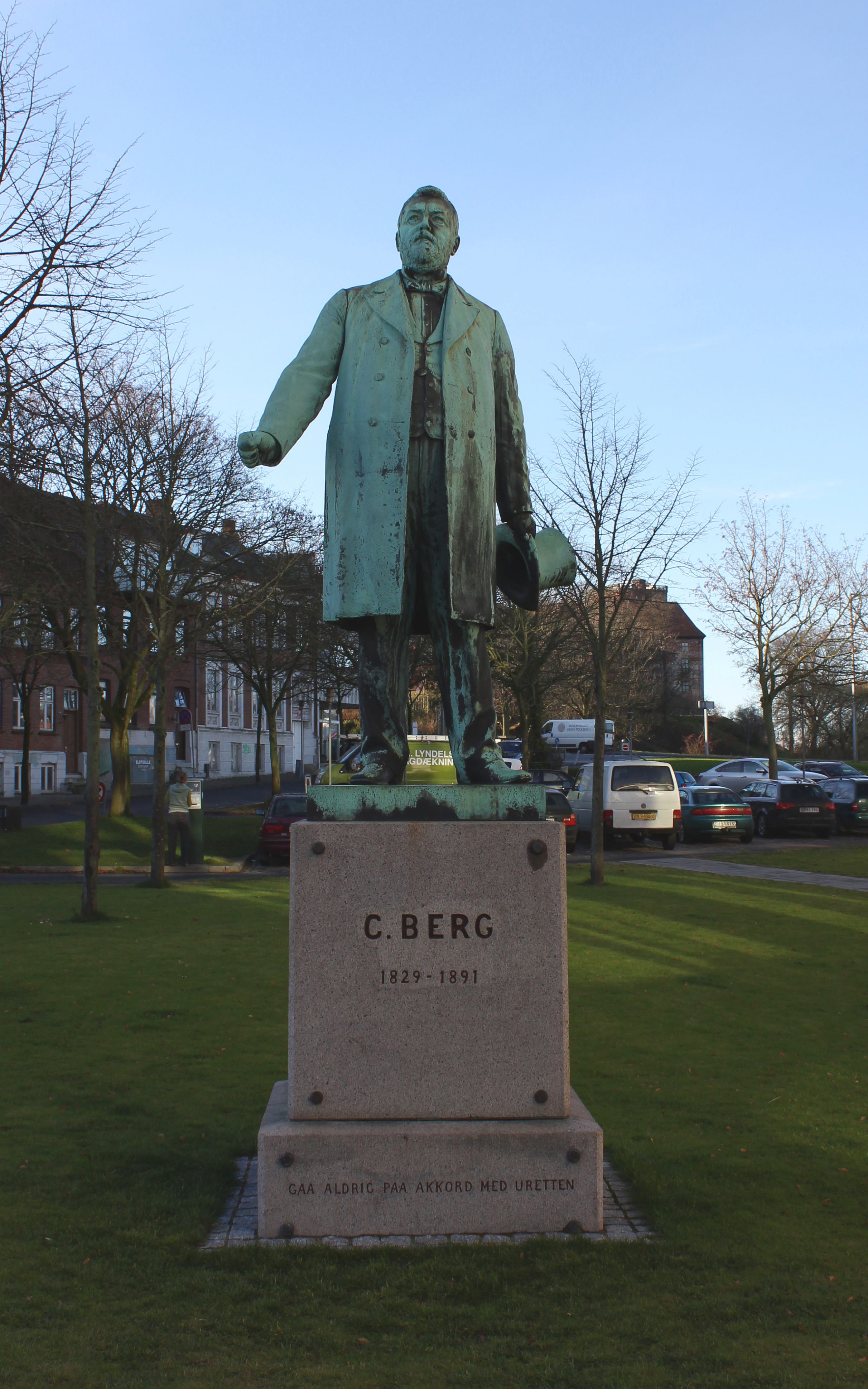 Chresten (Christen) Poulsen Berg, (December 18, 1829 – November 28, 1891), was a Danish liberal politician and editor. Chresten poulsen Berg (1829-91) was a teacher at Borgerskolen in Kolding 1852-61.He was a member of parliament, elected in Kolding circle of the Liberal Party from 1865 until his death in 1891. In 1871 he founded Kolding Folkeblad and then nine other leftwing papers. Already in the early 1870s he was the most prominent Liberal politician in the country. In the 1880s he was a Liberal lead in the fight against the rightwing Government. Chr. Berg is buried in Kolding Old Cemetery. The Statue was erected in 1906 on the initiative of a committee that had county man and Councillor for the Liberal Party in Kolding, attorney JL Hansen as chairman. The statue was made by Rasmus M. Andersen (1861-1930). At the base is written: Never go on Chord with injustice.